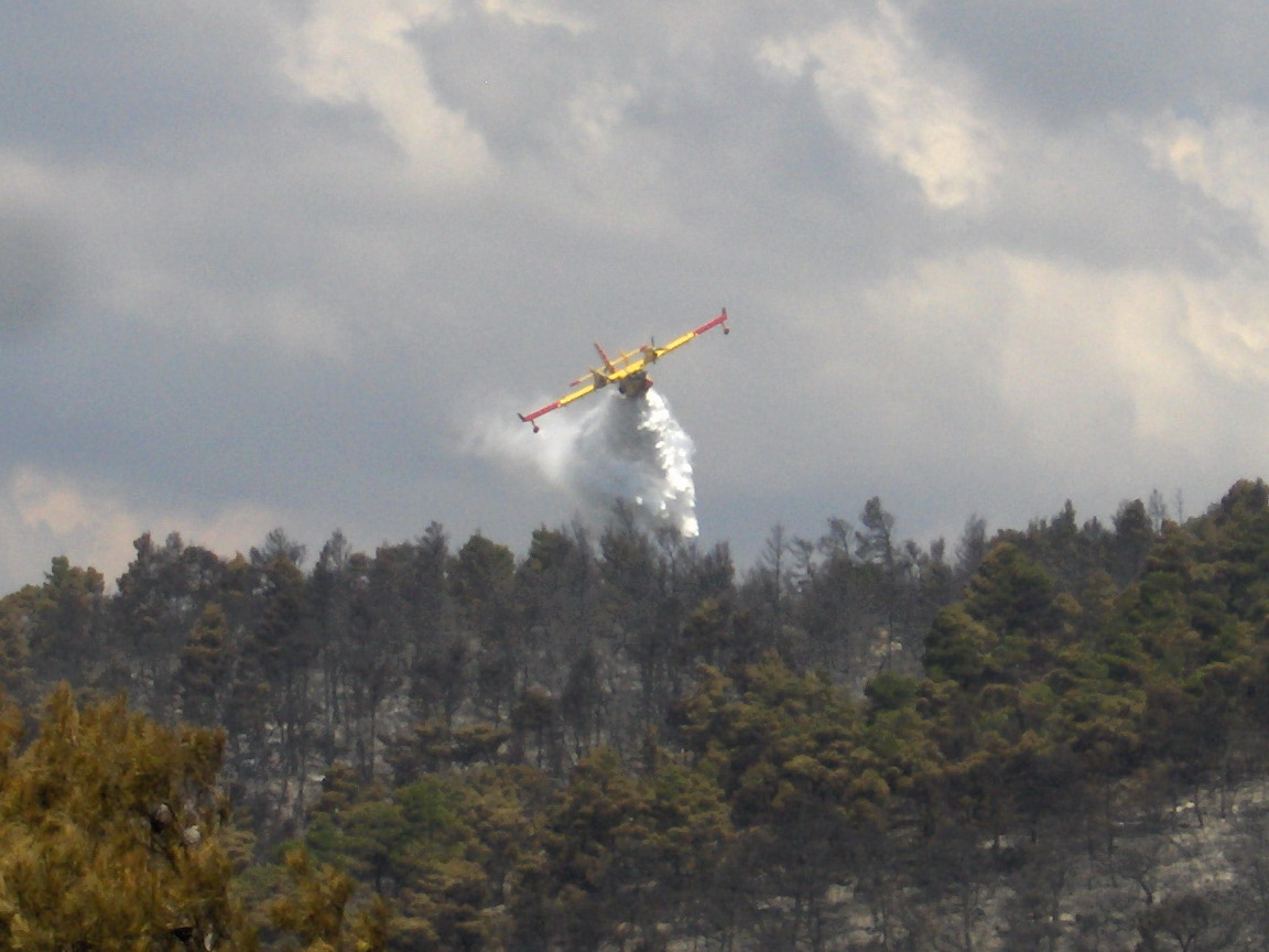 An Italian or Spanish Canadair CL-415. Photo from 3rd and 4th days of the fire in Parnitha, Greece.